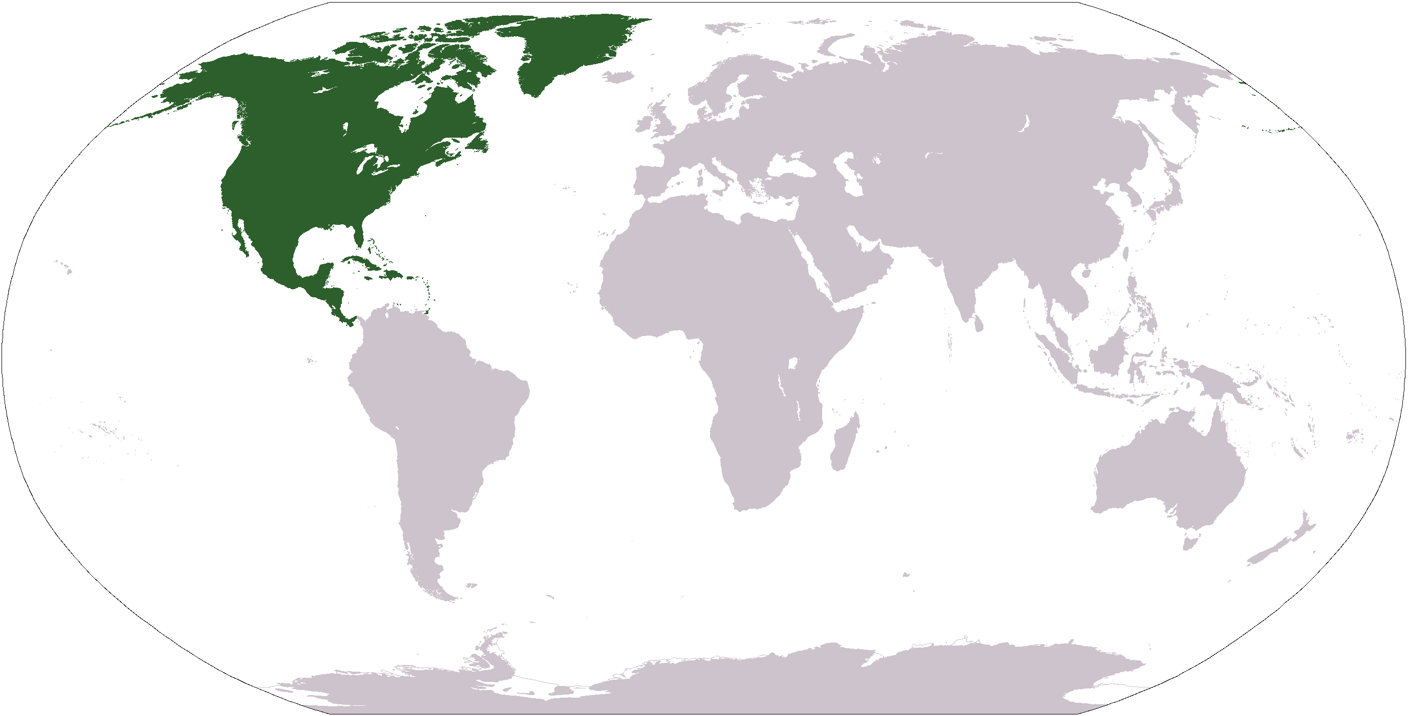 World map depicting North America